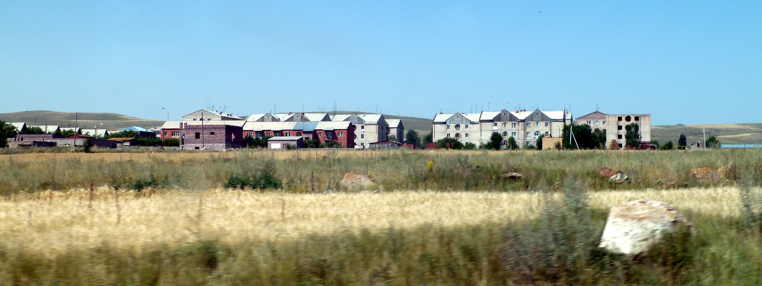 Maralik from M-1 highway